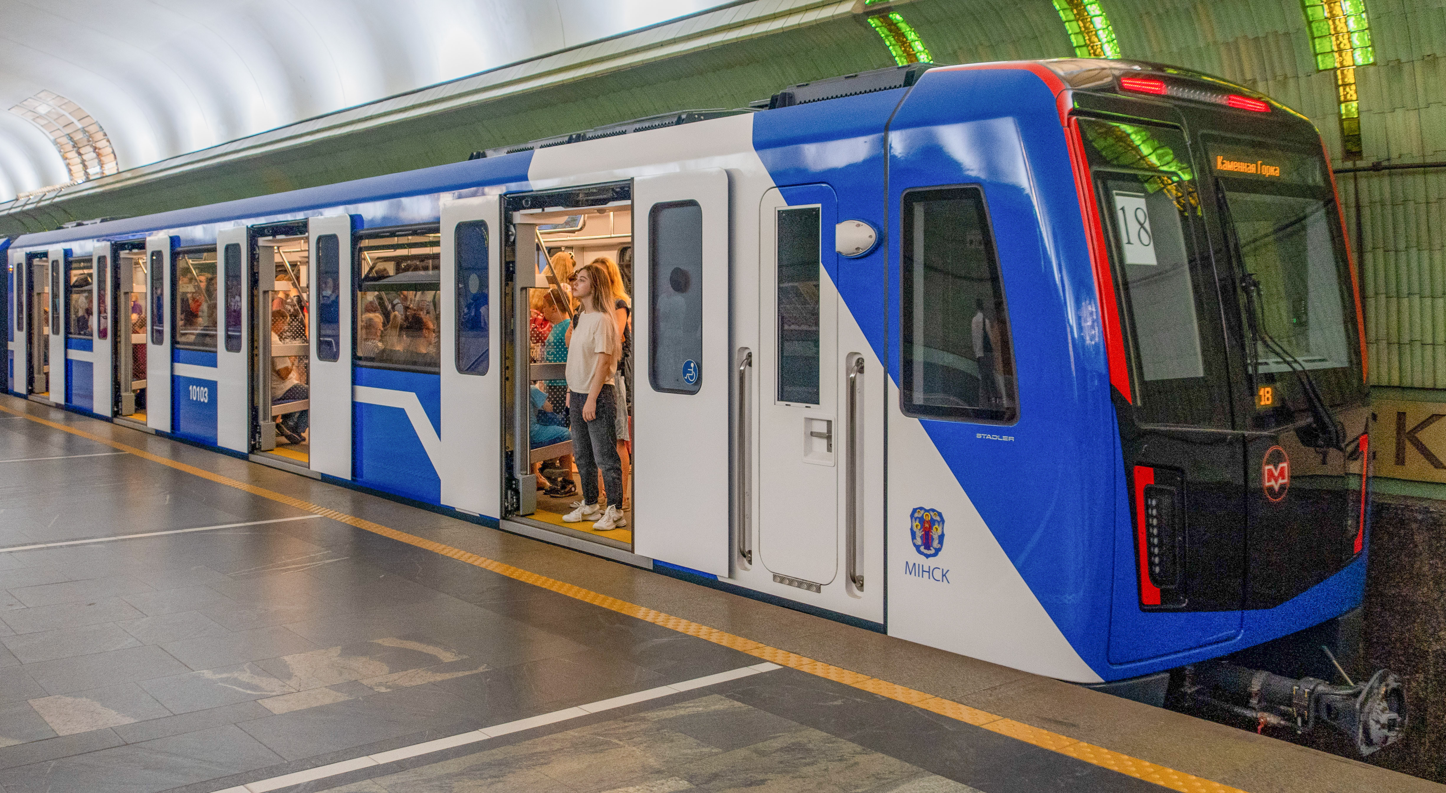 Electric train Stadler M110/M111. Kupalauskaja station, Minsk Metro, Belarus